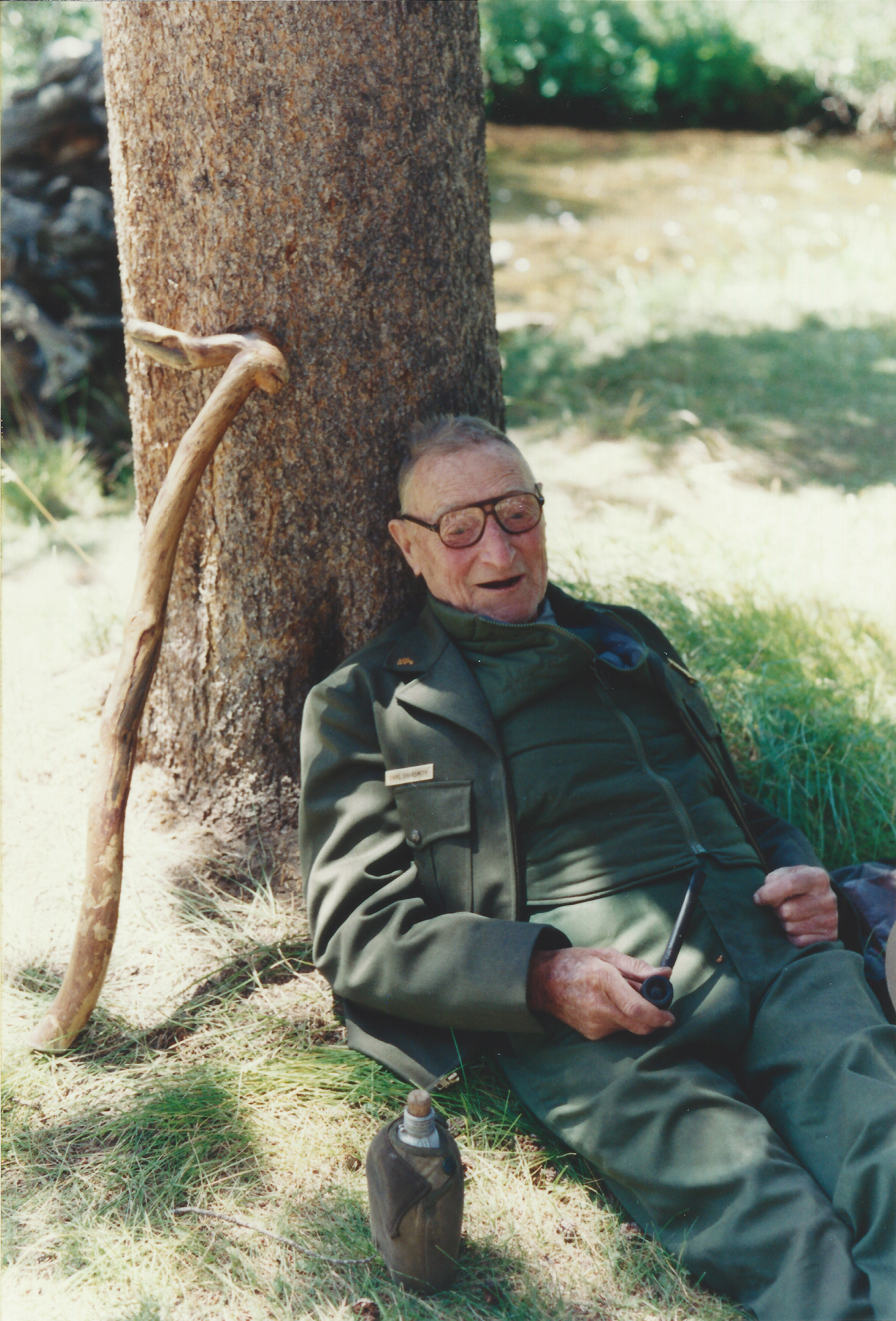 Ranger/naturalist and Botanist Carl Sharsmith - Lunch in the Tuolumne Meadows - Summer 1994